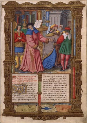 Boccaccio and his audience Des cas des nobles hommes et femmes (Of the Fate of Illustrious Men and Women) France, ca. 1520